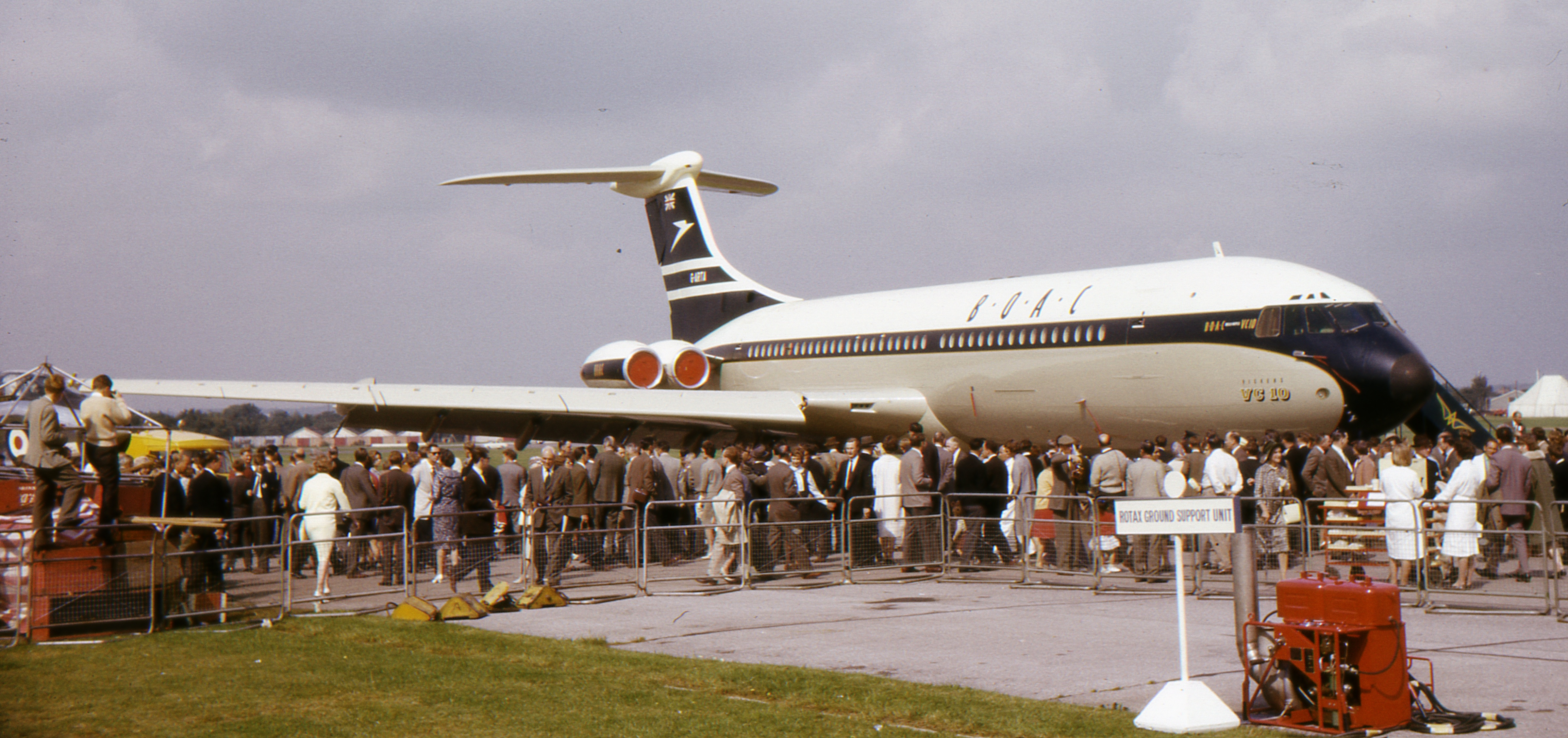 The prototype Vickers VC10, G-ARTA at the SBAC show, Farnborough 8 September 1962. Its first flight was not long before, on 29 June 1962.